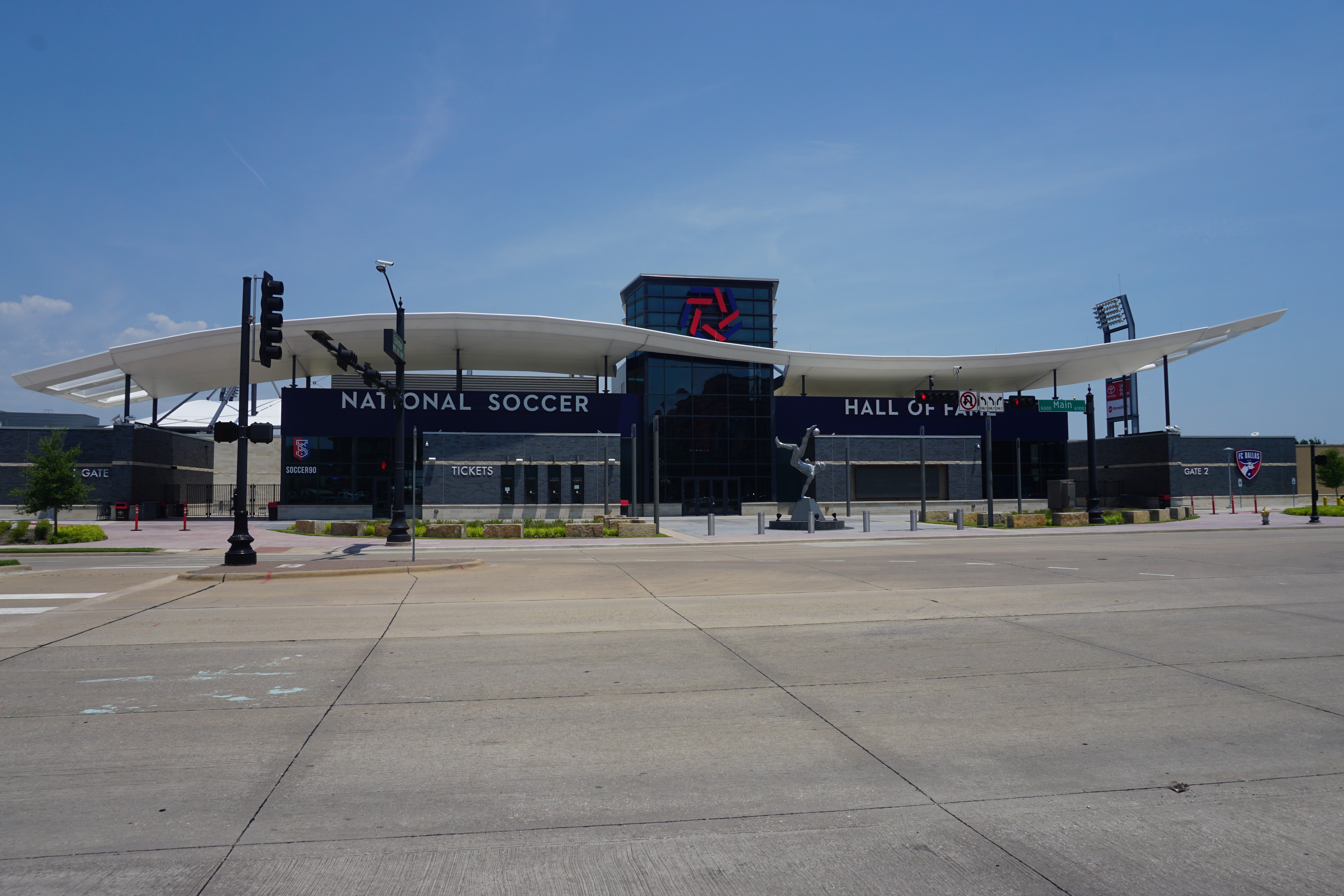 The National Soccer Hall of Fame in Frisco, Texas (United States).